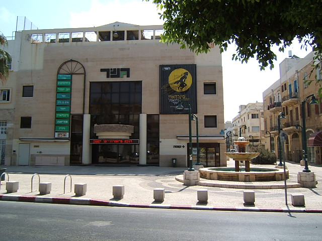 Noga (Gesher) building in Yaffo